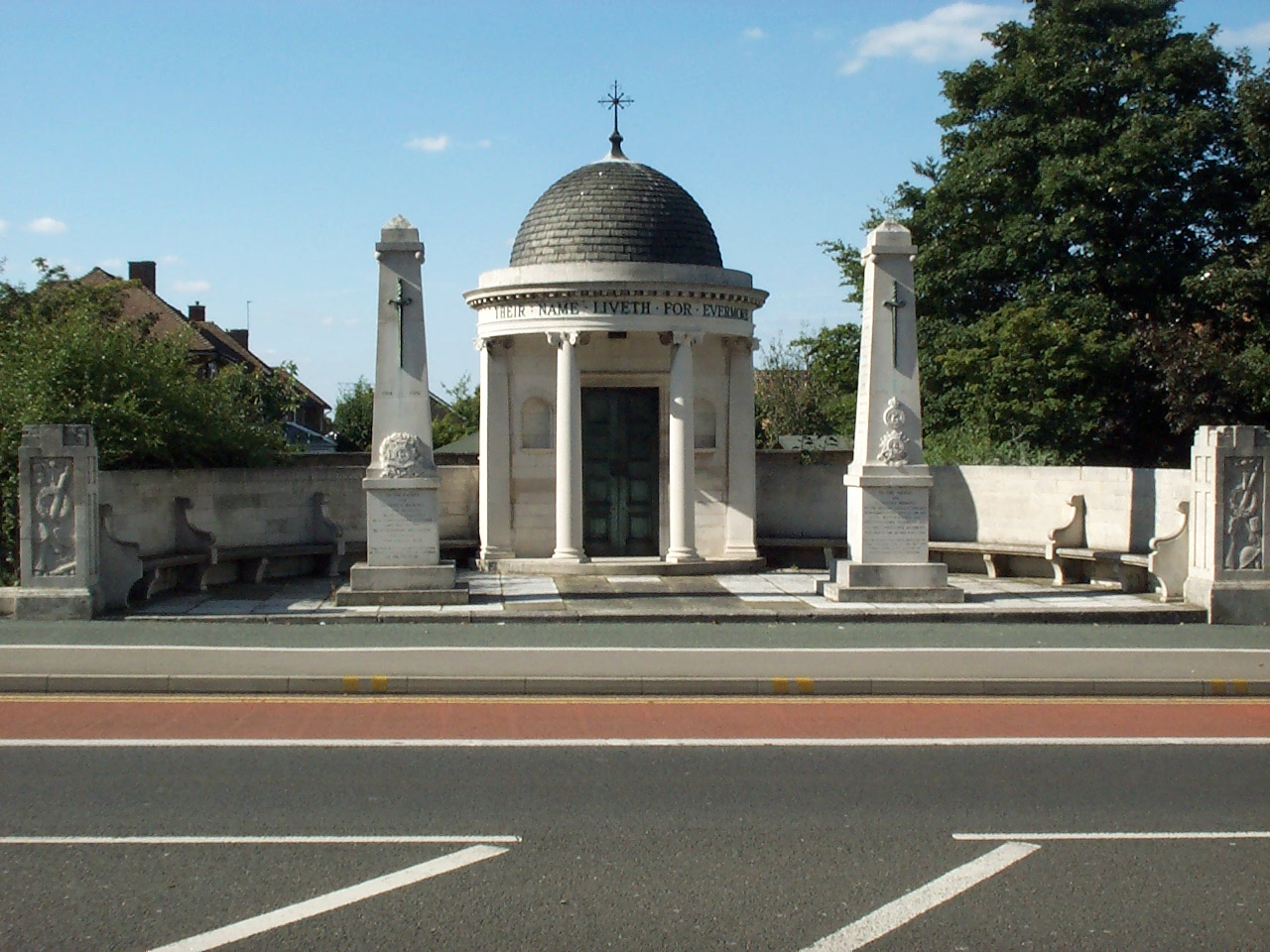 War Memorial, opposite former barracks (now "The Keep" Masonic Centre) in Kempston, Bedfordshire, England.